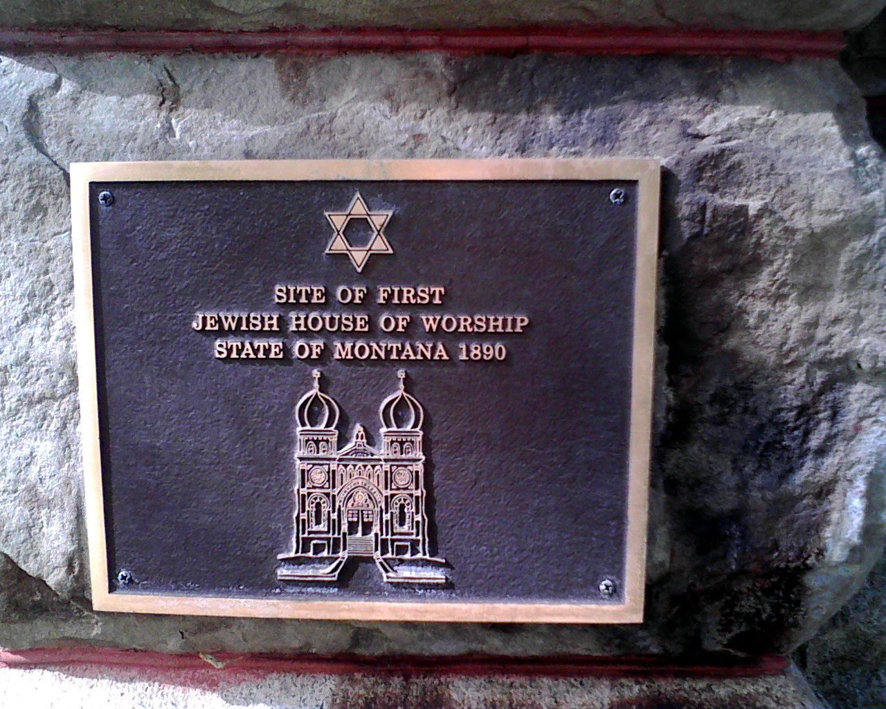 Temple Emanu-El, Building on National Register of Historic Places, Helena, Montana. Now, ironically, houses the administrative offices of the Helena Diocese of the Roman Catholic Church